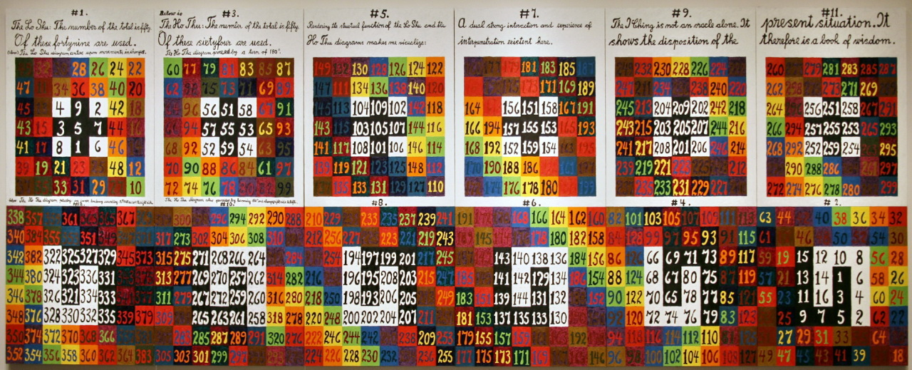 During the 1960s and 1970s the fate and future of painting was a hotly contested subject on the New York art scene. It is especially telling, then, that Alfred Jensen's paintings were acclaimed during this period by two of the very artists—Donald Judd and Allan Kaprow—who were otherwise leading the assault on painting in favor of new art forms such as minimal sculpture and assemblage. Yet as Judd, writing in 1963, put it simply: "Jensen is great. He is one of the best painters in the United States." The formal qualities that make Jensen so significant as a postwar painter are fully on display in Twelve Events in a Dual Universe. On the one hand, the painting demonstrates Jensen's longstanding exploration of color theory, and thus engages in critical artistic dialogue with the work of important early-twentieth-century artists such as Robert Delaunay, Paul Klee, and Josef Albers. On the other hand, one can see here another set of interests—number systems, grid patterns, and chance structures—that so strongly spoke to the younger generation of artists of which Judd and Kaprow were a part. When encountered in person, Jensen's paintings are striking for their use of paint as both form and material. Chromatically vibrant and sensuously thick, paint in these works is equally visual and tactile.